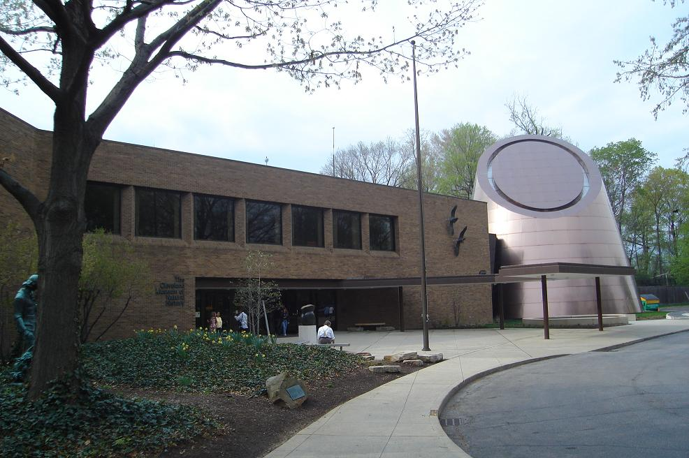 The Cleveland Museum of Natural History, seen in April 2006. Also in view is the new Fannye Shafran Planetarium.